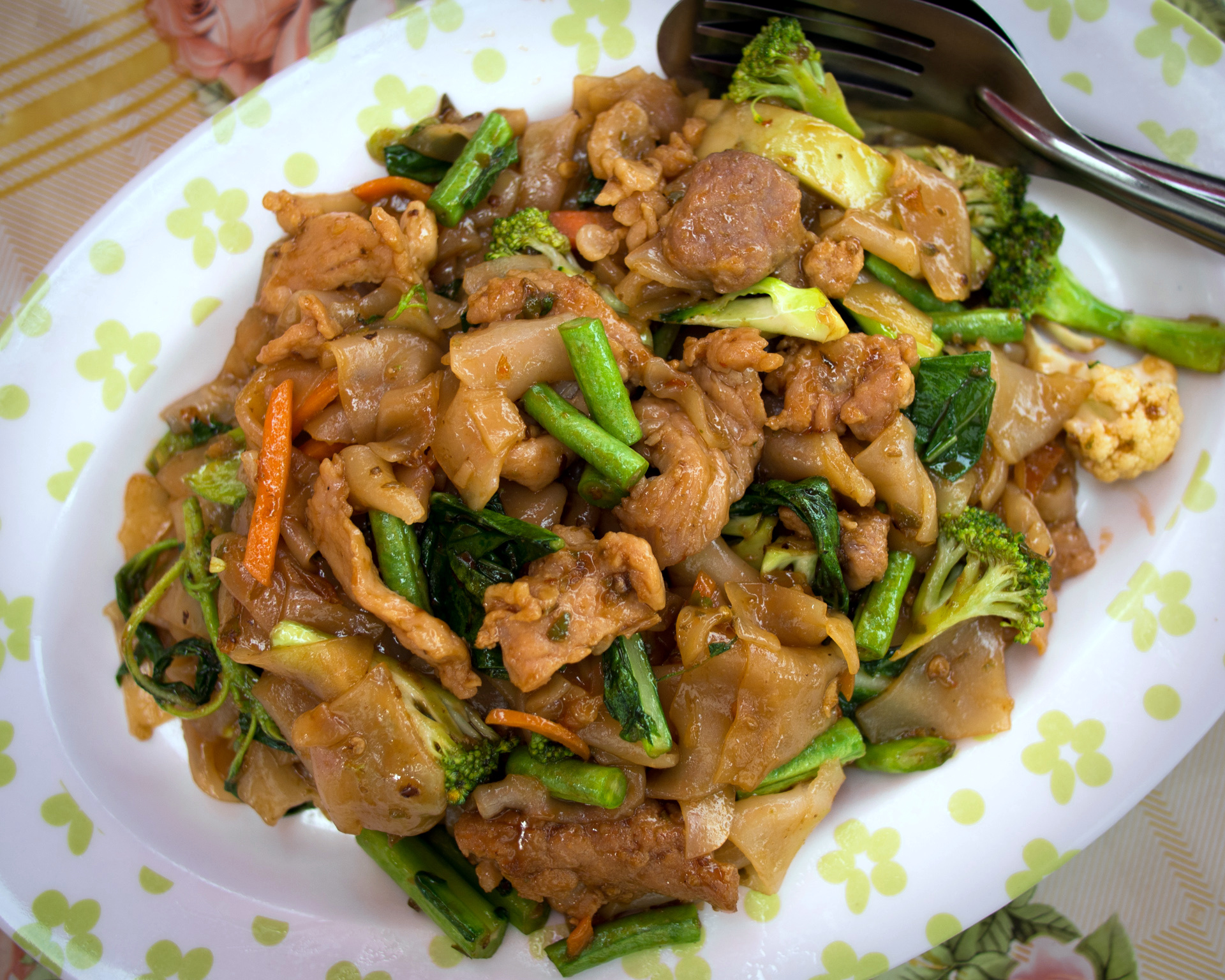 Phat khi mao (Thai script: ผัดขี้เมา; lit. "stir-fried shit drunk"). Here it is made with pork, mixed vegetables, chilli paste, holy basil, and sen yai, known as "broad rice noodles" or "rice sticks" in English, and as "shahe fen" in Chinese.